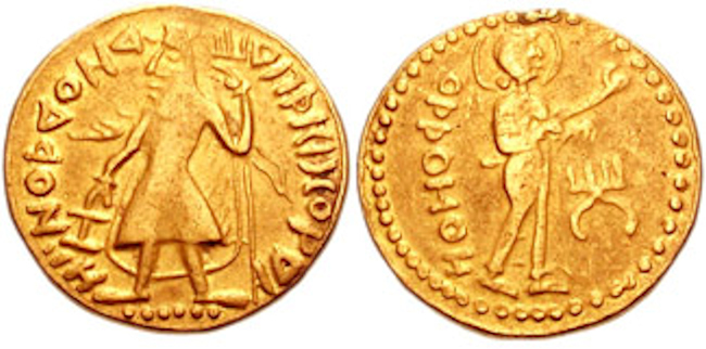 Bengal. Samatata. Coin of Vira Jadamarah imitative of Kushan coinage of Kanishka I. Circa 2nd-3rd century CE